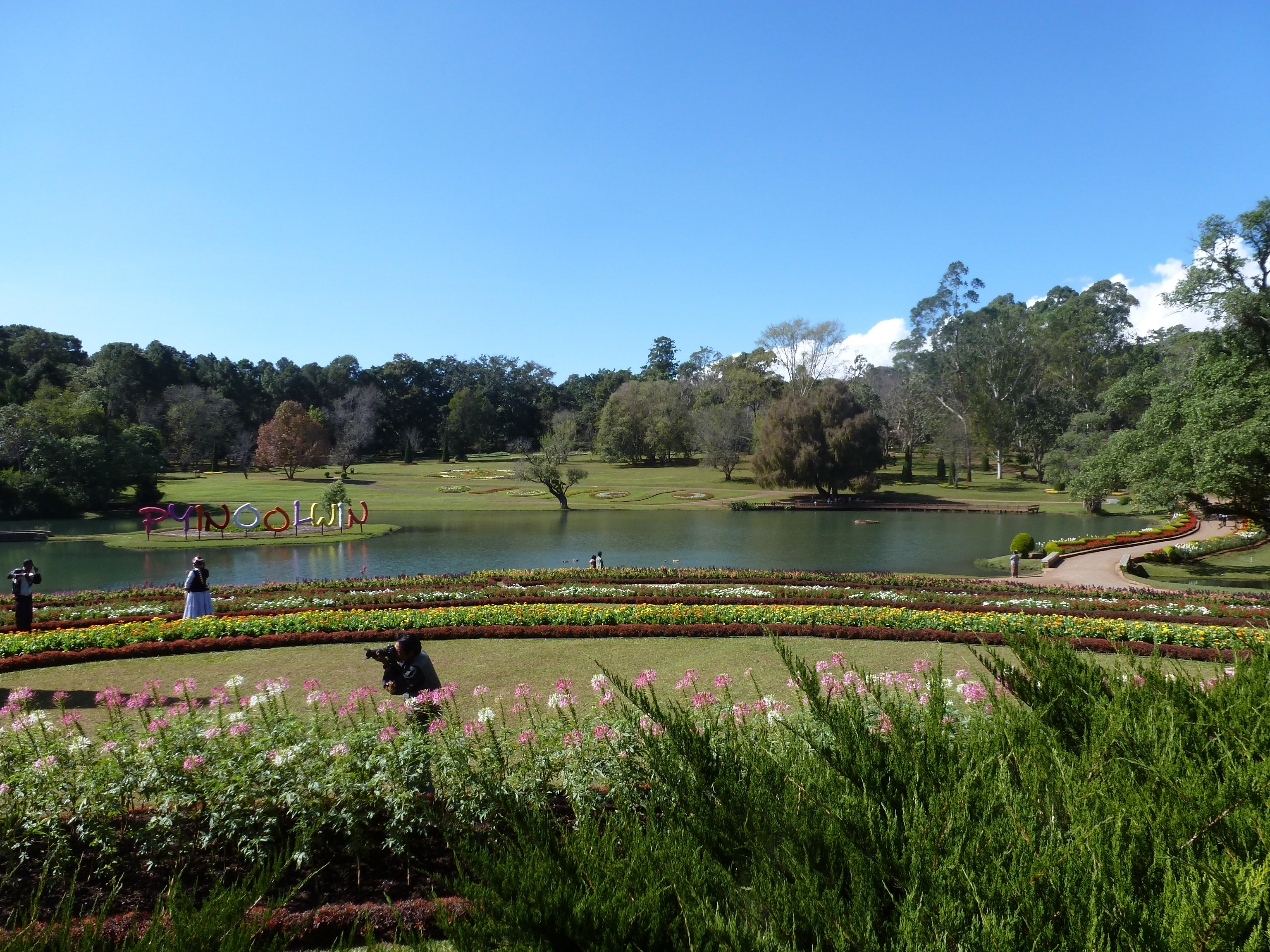 Kandawgyi Botanical Gardens at Pyinoolwin